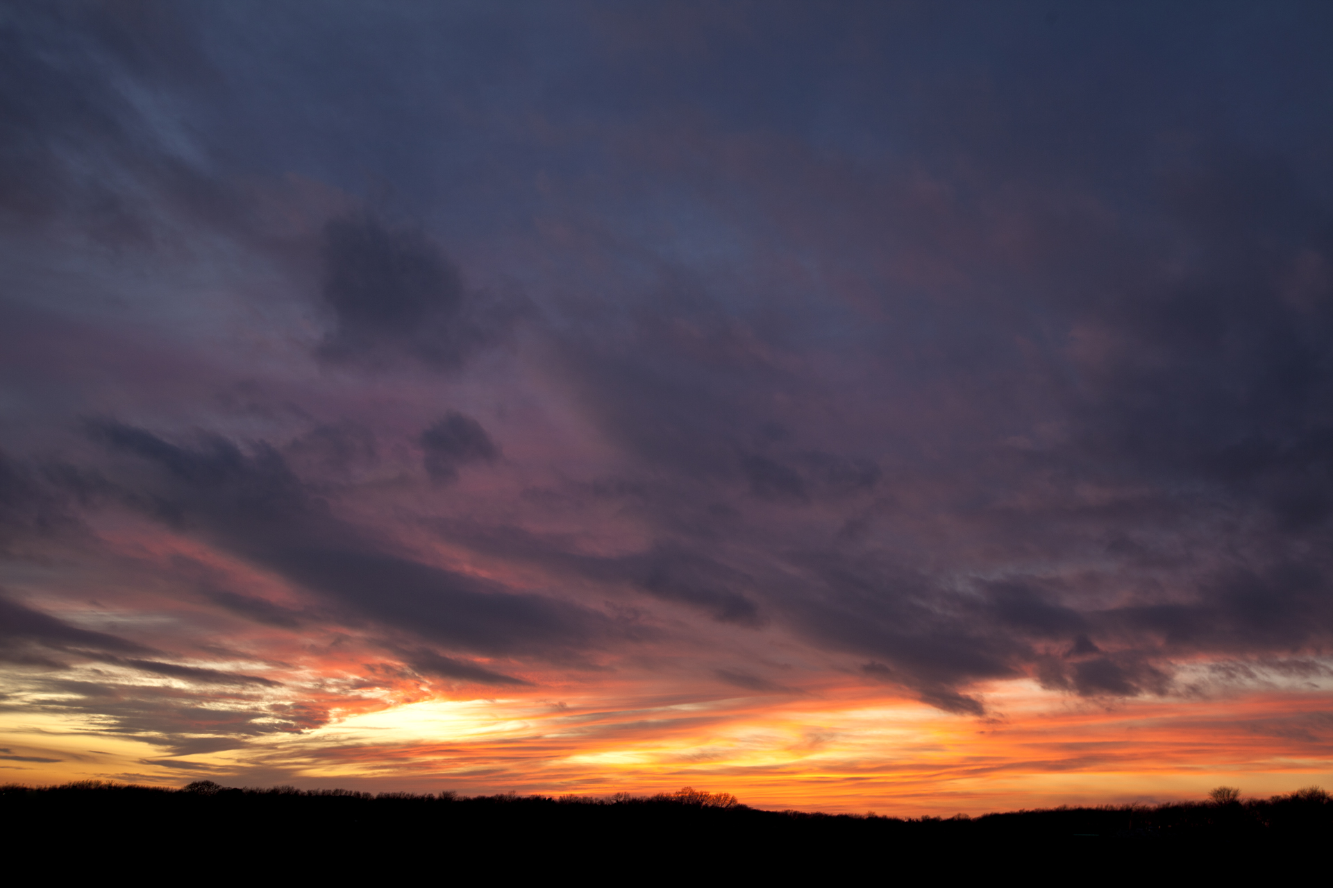 Cloudscape taken 1-16-12 in Frisco, TX for the Clouds 365 Project